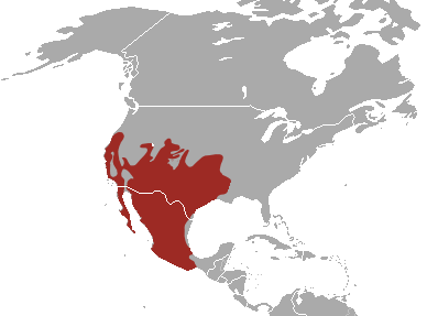 Ring-tailed Cat (Bassariscus astutus) range, with colonial borders